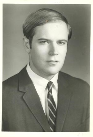 Nicholas. E. Hollis Headshot